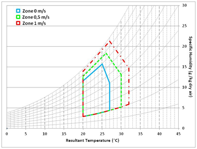 Givoni zones